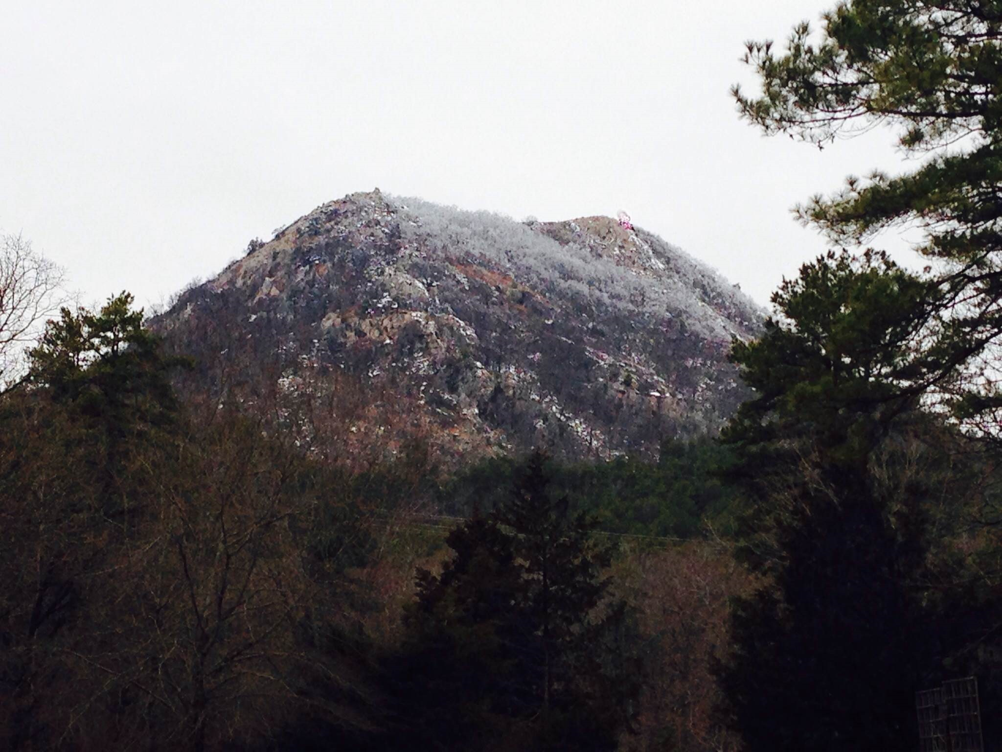 Pinnacle Mountain in winter